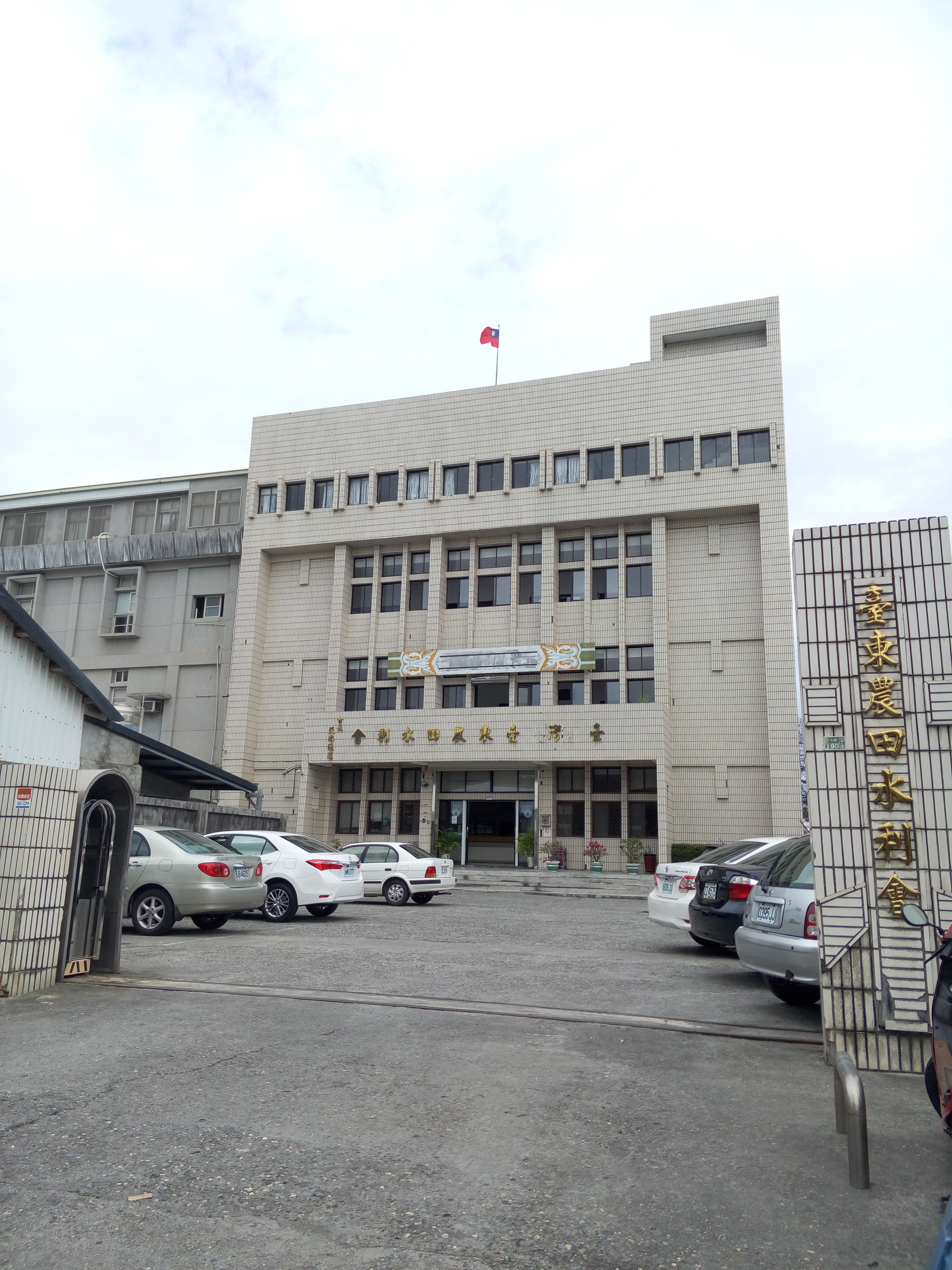 Taiwan(R.O.C)Taiwan Taitung Irrigation Association HQ